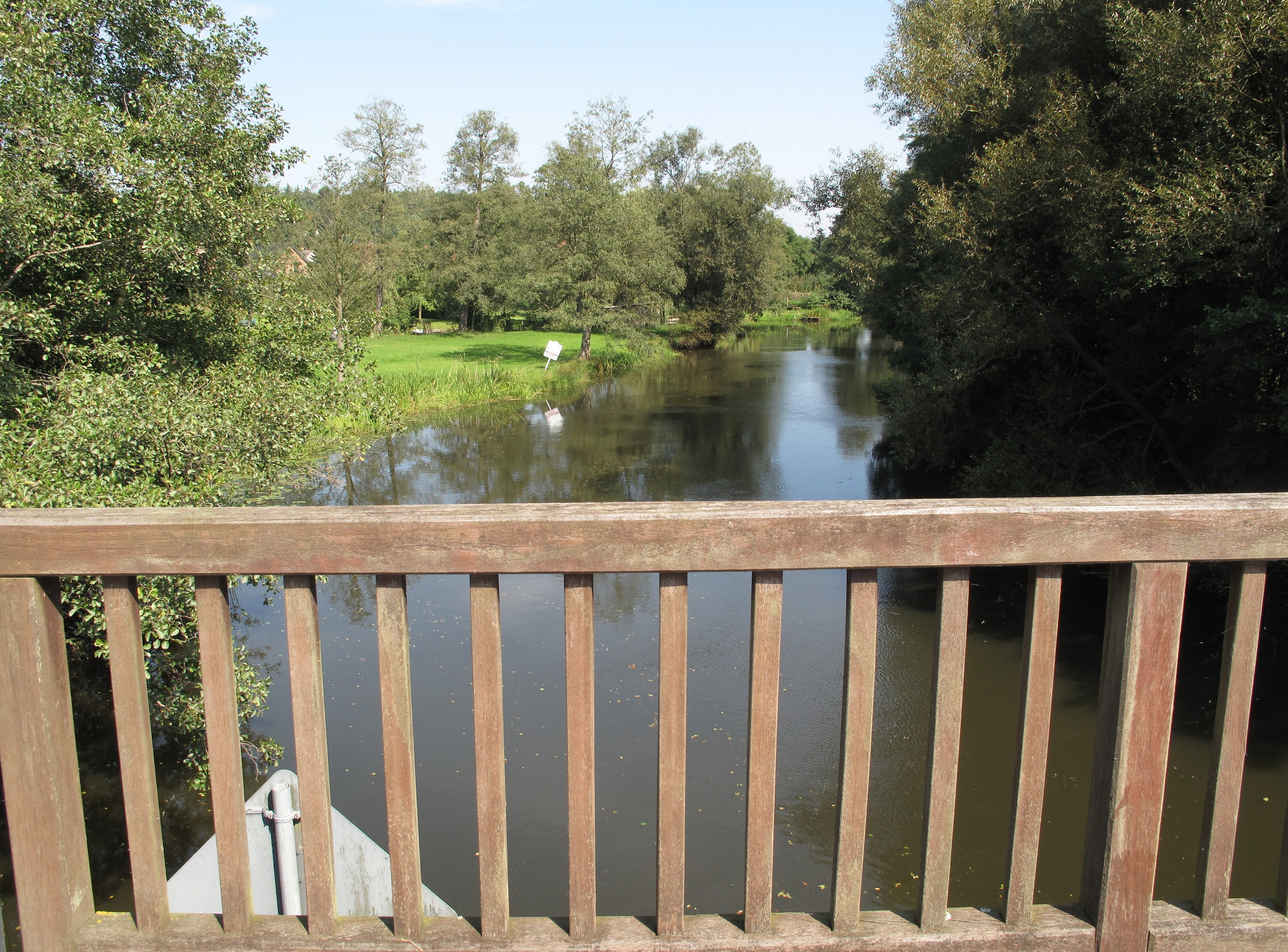 View from the „Spreebrücke Werder“ over the protected floodplain of the river Spree. The „Spreebrücke Werder“ is a street-, bike- and footbridge in the village Werder, a part of the municipality Tauche in the District Oder-Spree, Brandenburg, Germany. The pile bridge was built in 1991 and spans the river Spree. To conserve the landscape image it was built entirely from wood. The bridge is part of the Spreeradweg (Spree-cycling-route).